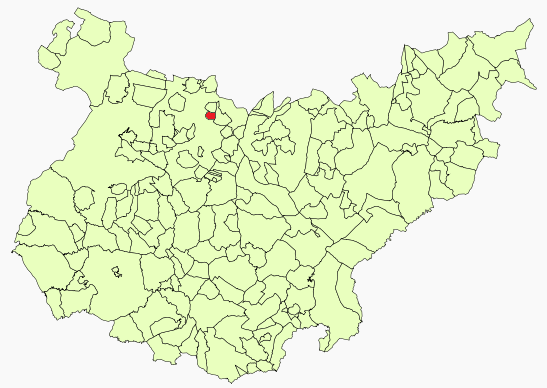 El Carrascalejo